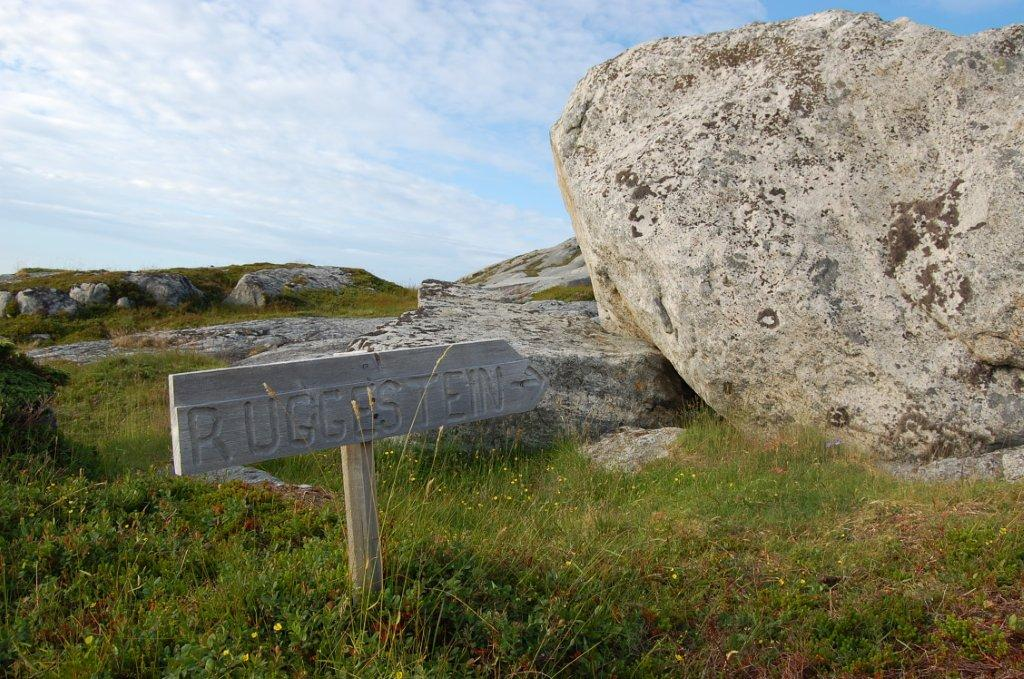 "Move Block" - Bolga, Norway